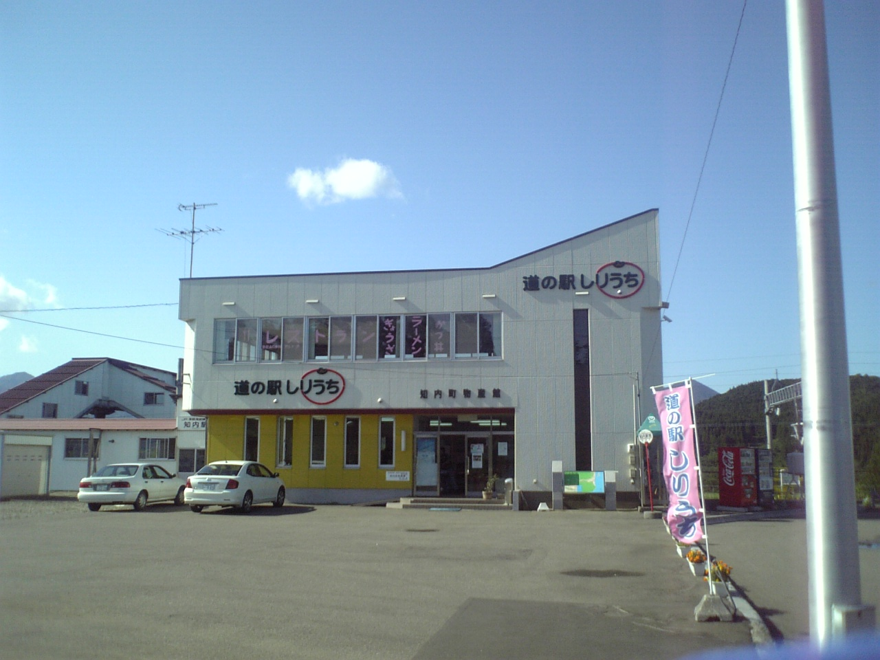 Michinoeki (Roadside Station) Shiriuchi (right) and Shiriuchi Station (left) in Shiriuchi Town, Hokkaido, Japan